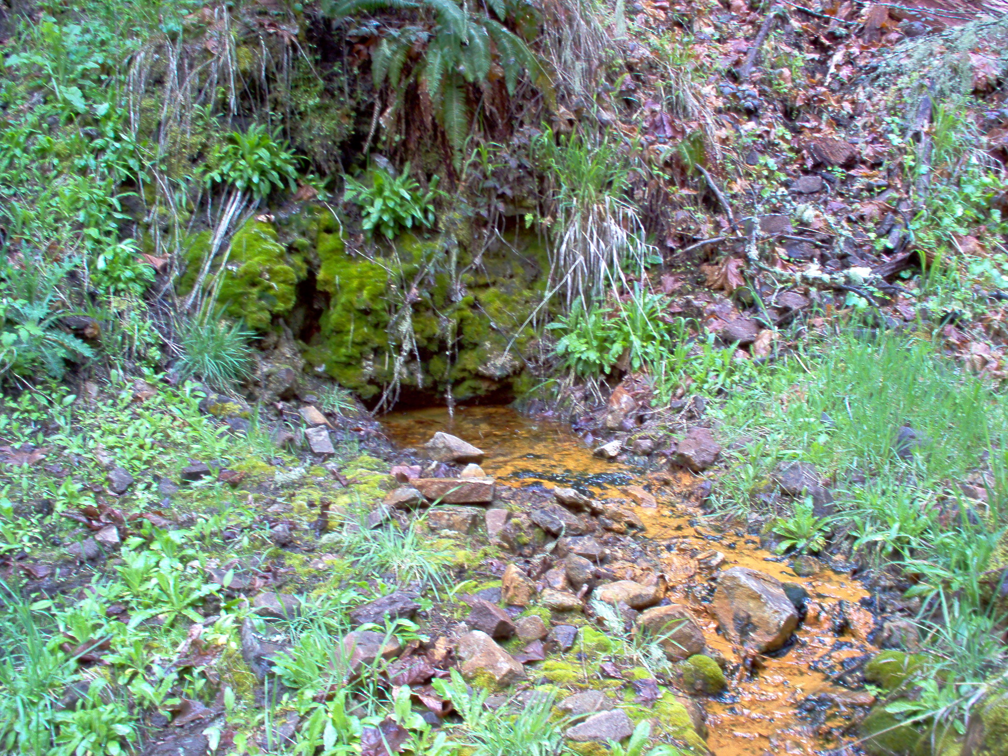 I took this image myself at the Dead Indian Soda Springs.